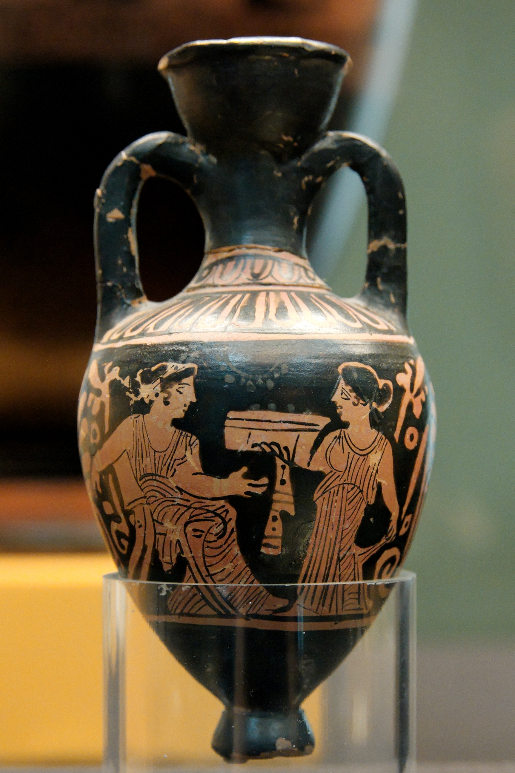 Gyneacaeum scene: a servant brings her mistress a box and a ribbon. Attic red-figure amphoriskos, 420-400 BC.